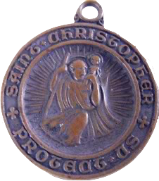 Simple conversion of a jpeg image on the commons to a png image